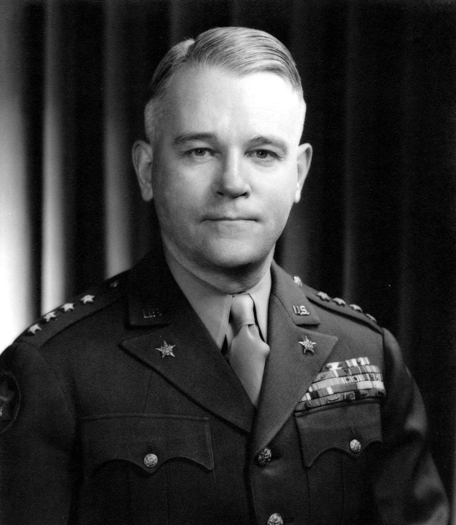 J. Lawton "Lightnin' Joe" Collins (1896–1987), US Army General during World War II and the Korean War, Chief of Staff of the U.S. Army